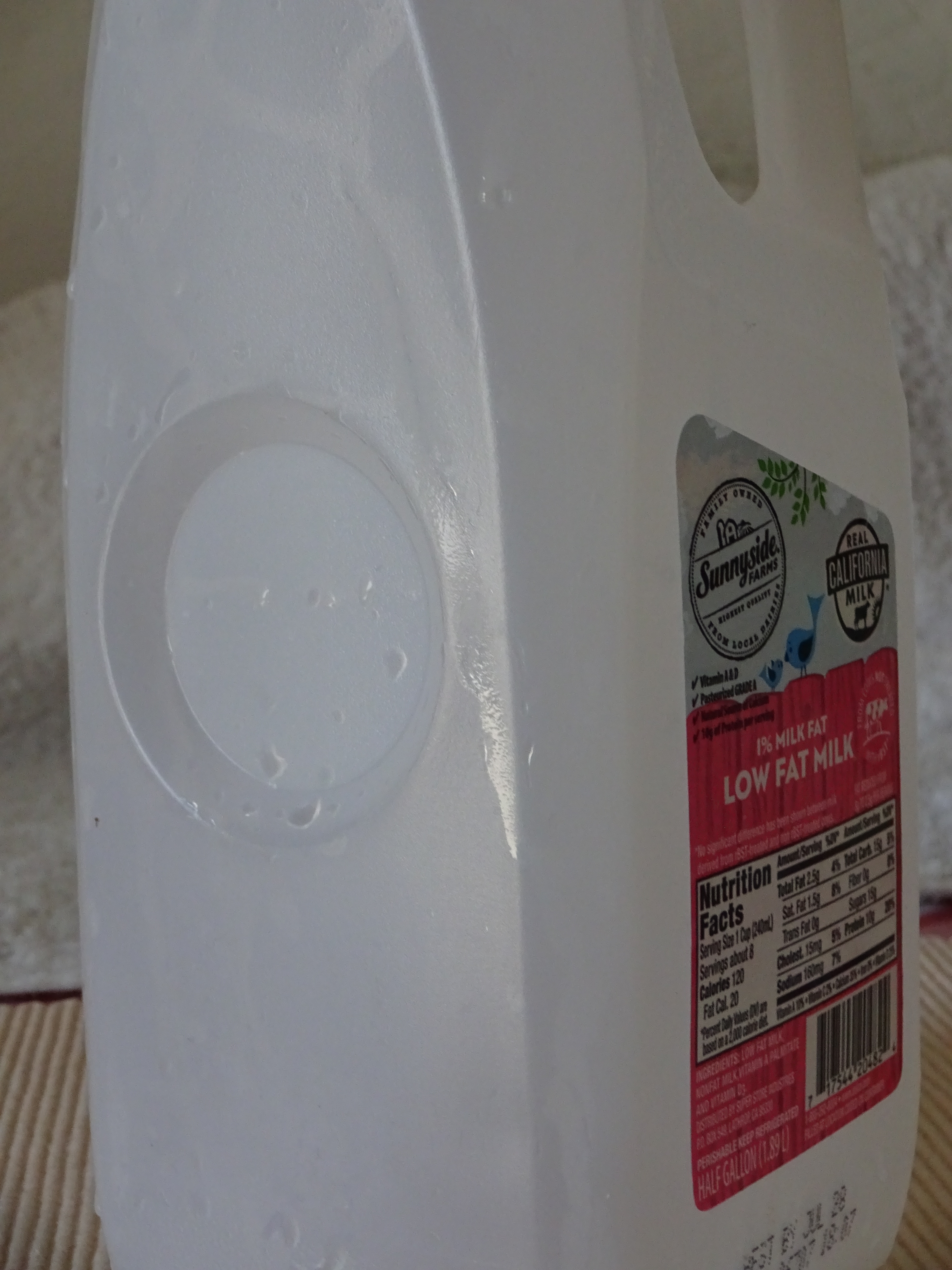 Volumn adjuster of different sizes can be swapped out of a mould to give a blow moulded bottle a precise volume.